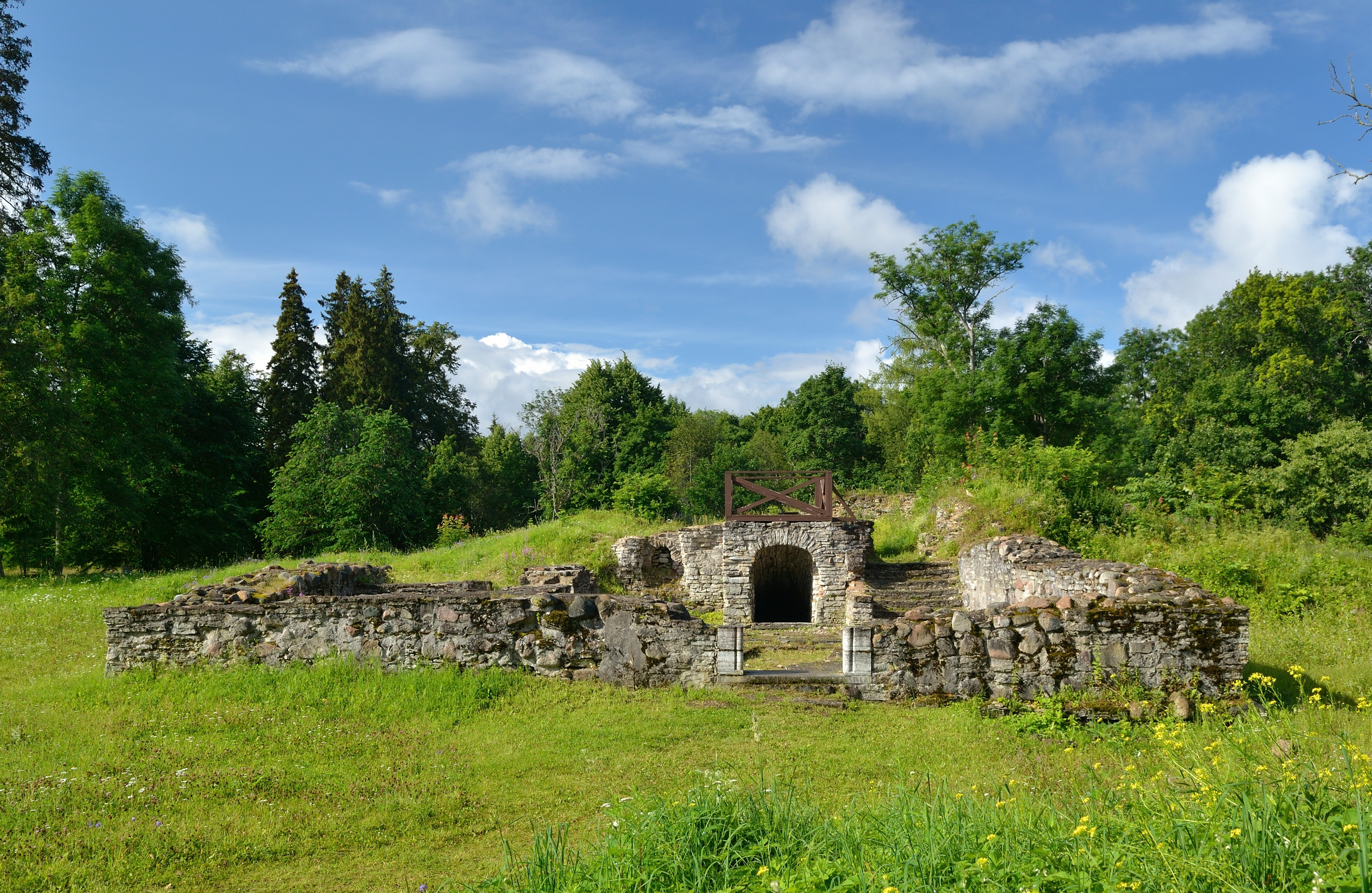 Ruins of Keila stronghold